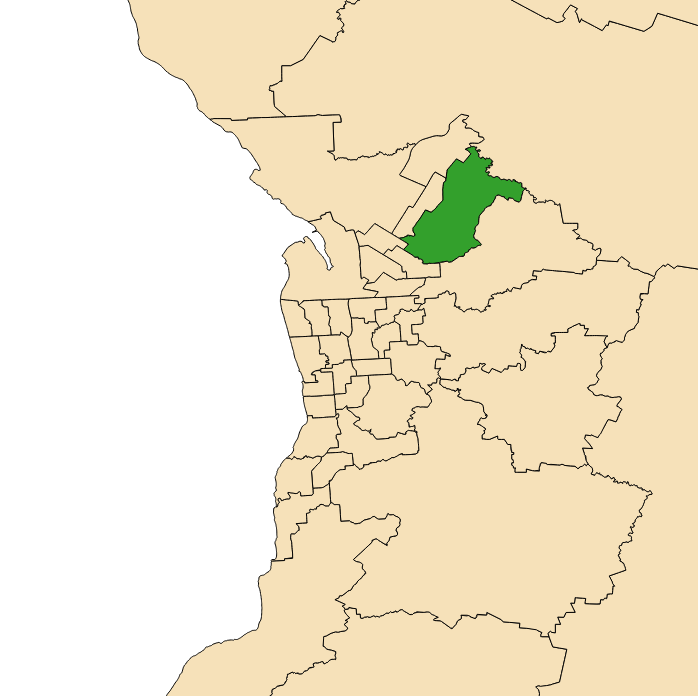 Electoral district 2018 boundaries shown in green